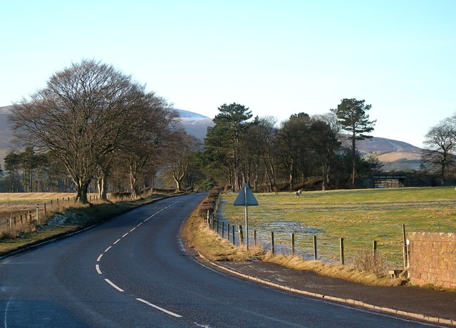 The A72 At Wolfclyde A winter view, with frost still lying in the shadows.